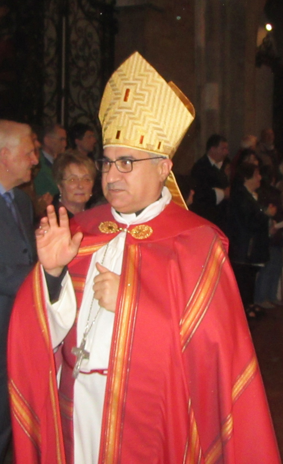 Caldean Archbishop Bashar Matti Warda in Lodi, 14 may 2016